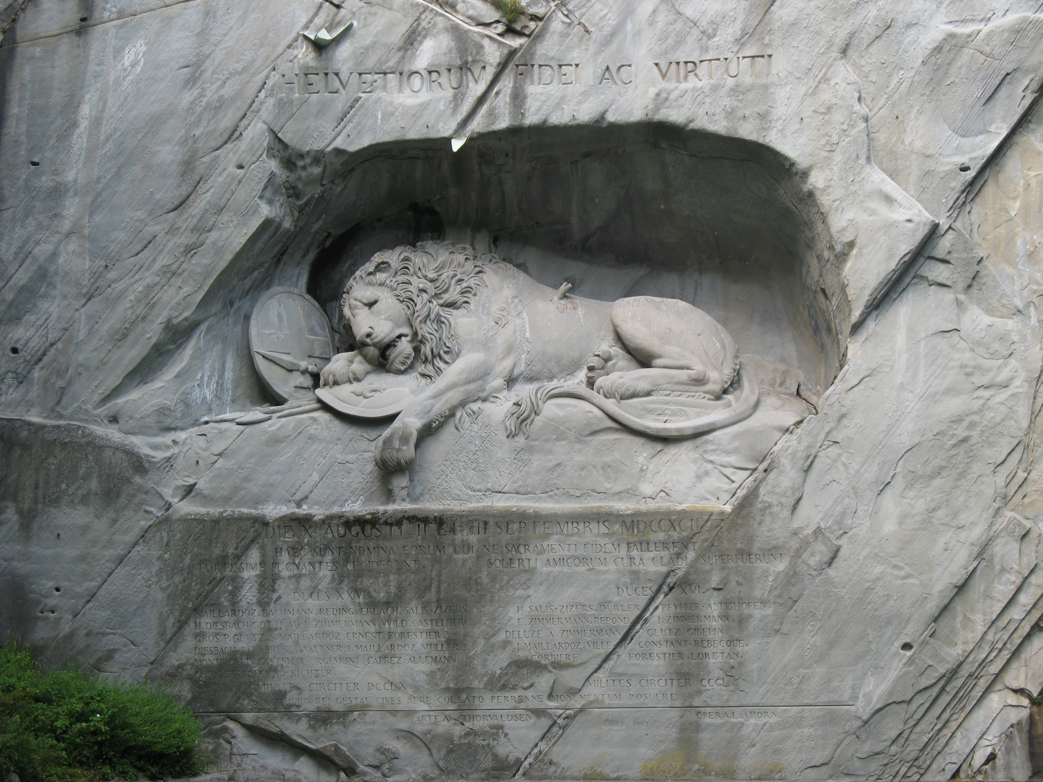 Lion Monument, Luzern, Switzerland